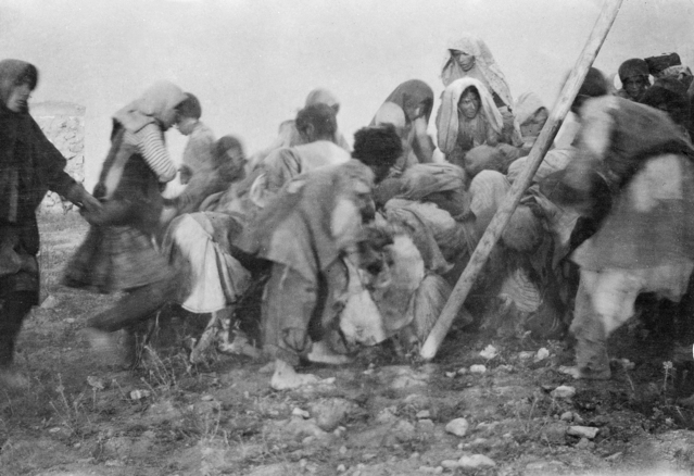 The daily sheep kill at Bijar. A small party of starving men and women fighting for the entrails